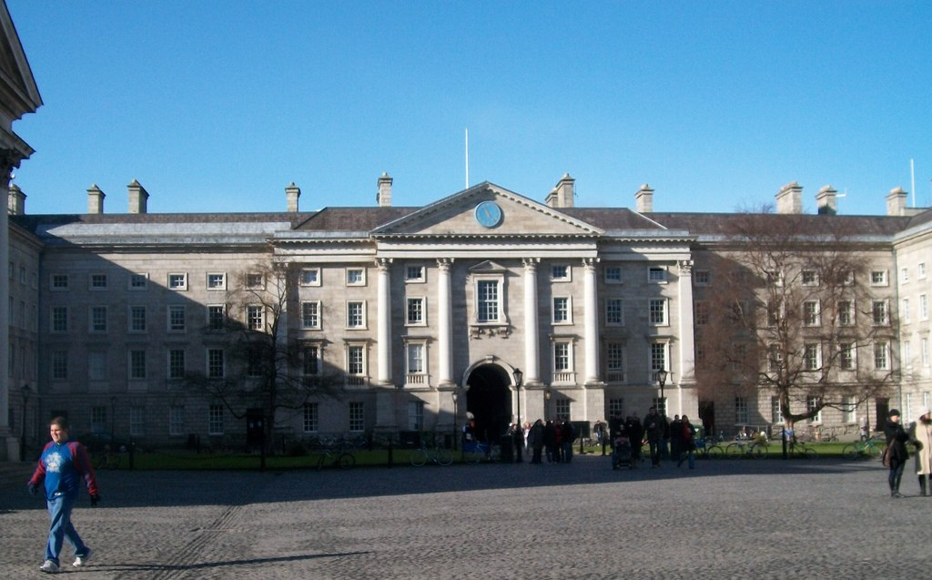 Regent House from Parliament Square. With the exception of that of the Campanile, this is probably the most iconic view of Trinity College Dublin [TCD] (Irish: Coláiste na Tríonóide, Baile Átha Cliath). The university was founded in 1592 by the Virgin Queen and given the name College of the Holy and Undivided Trinity of Queen Elizabeth near Dublin. Unlike some other universities in Great Britain and Ireland it has throughout its history consisted of only one constituent college.